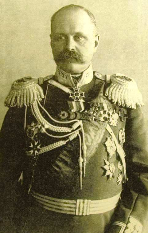 Djunkovsky Vladimir Feodorovitsch (1865-1938) Governor of Moscow, General